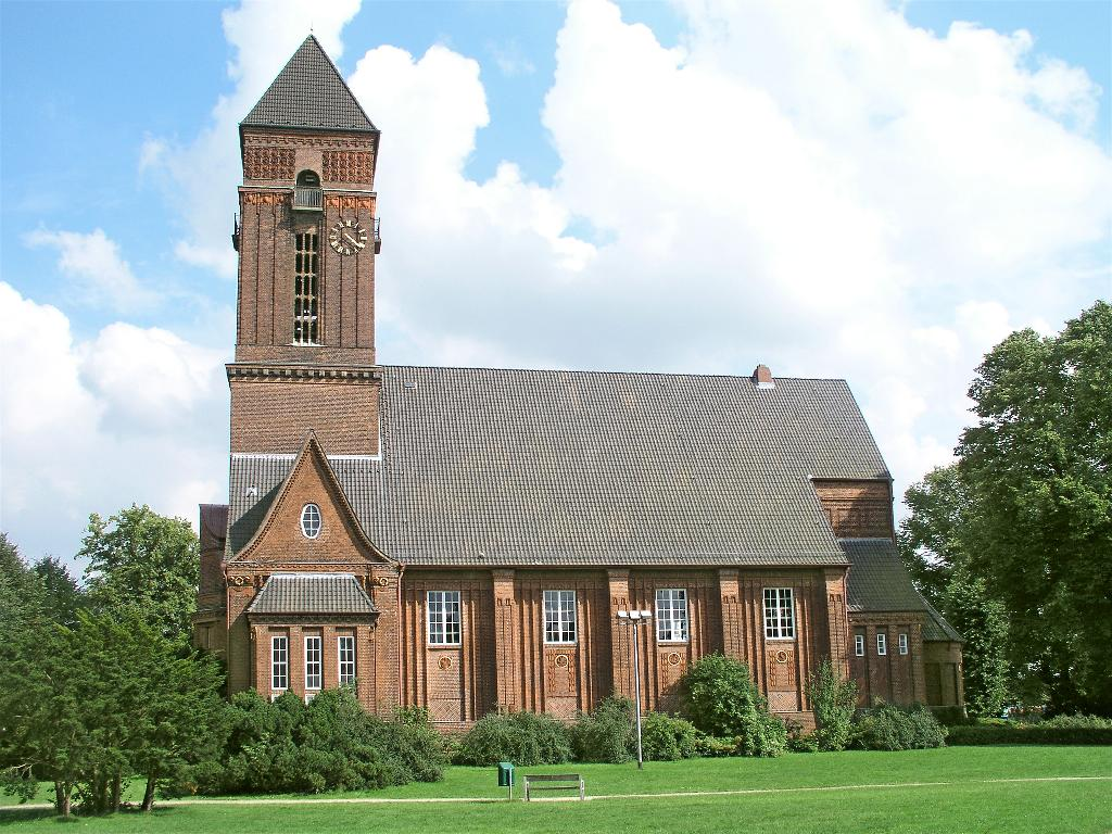 Neumünster, Schleswig-Holstein, Germany: church “Anscharkirche“, photo 2007